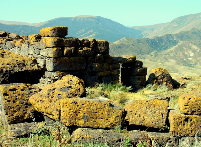 Cyclopic fortification in Saro, Georgia